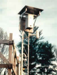 A nephelometer installation at Acadia National Park. The nephelometer is being used to monitor air quality in the park.